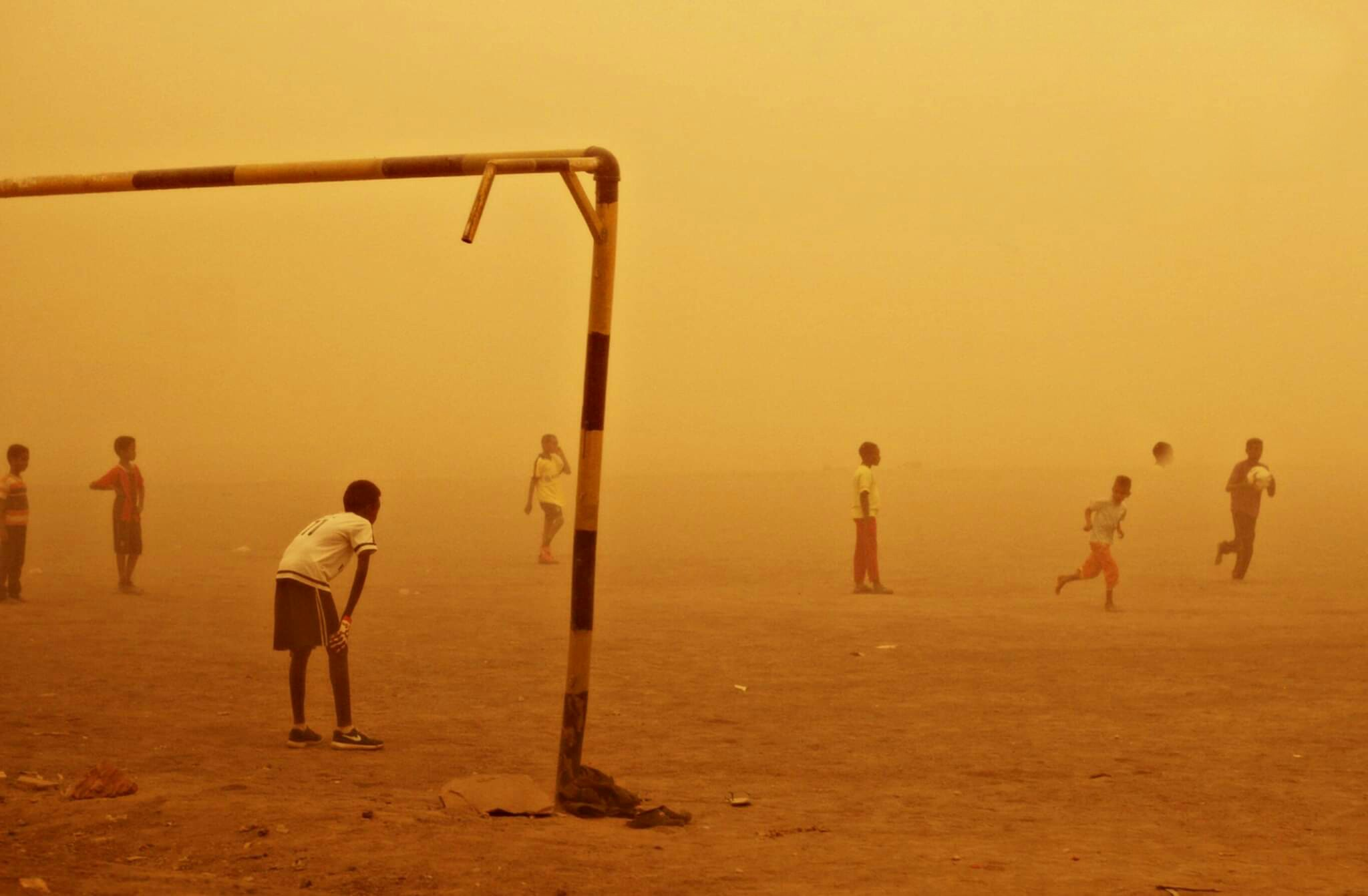 Those kids choose not to cancel their morning football training inspite of the sand storm, and all difficulties. This is an image with the theme "Play" from: Sudan